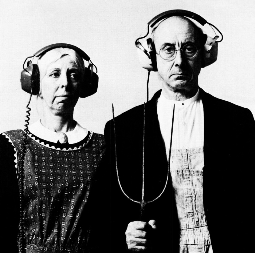 Trade ad for RCA Records' releases. To better adapt it to his respective Wikipedia article, the ad was cropped and cleaned in a graphics editing program. The original can be viewed at the source below.